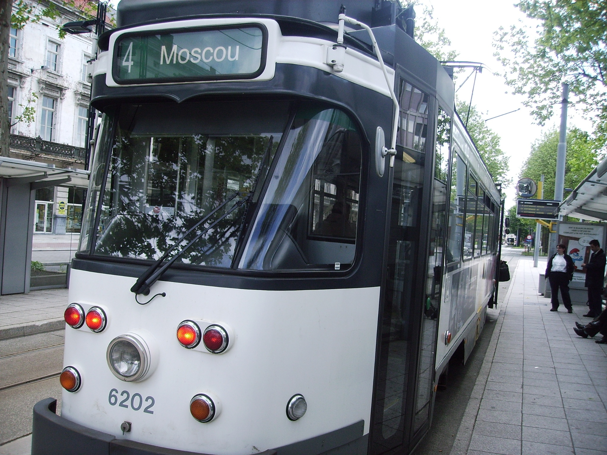 Tram 4 in Gent. Going direction "Moscou" Redgy Vanhove Own Camera